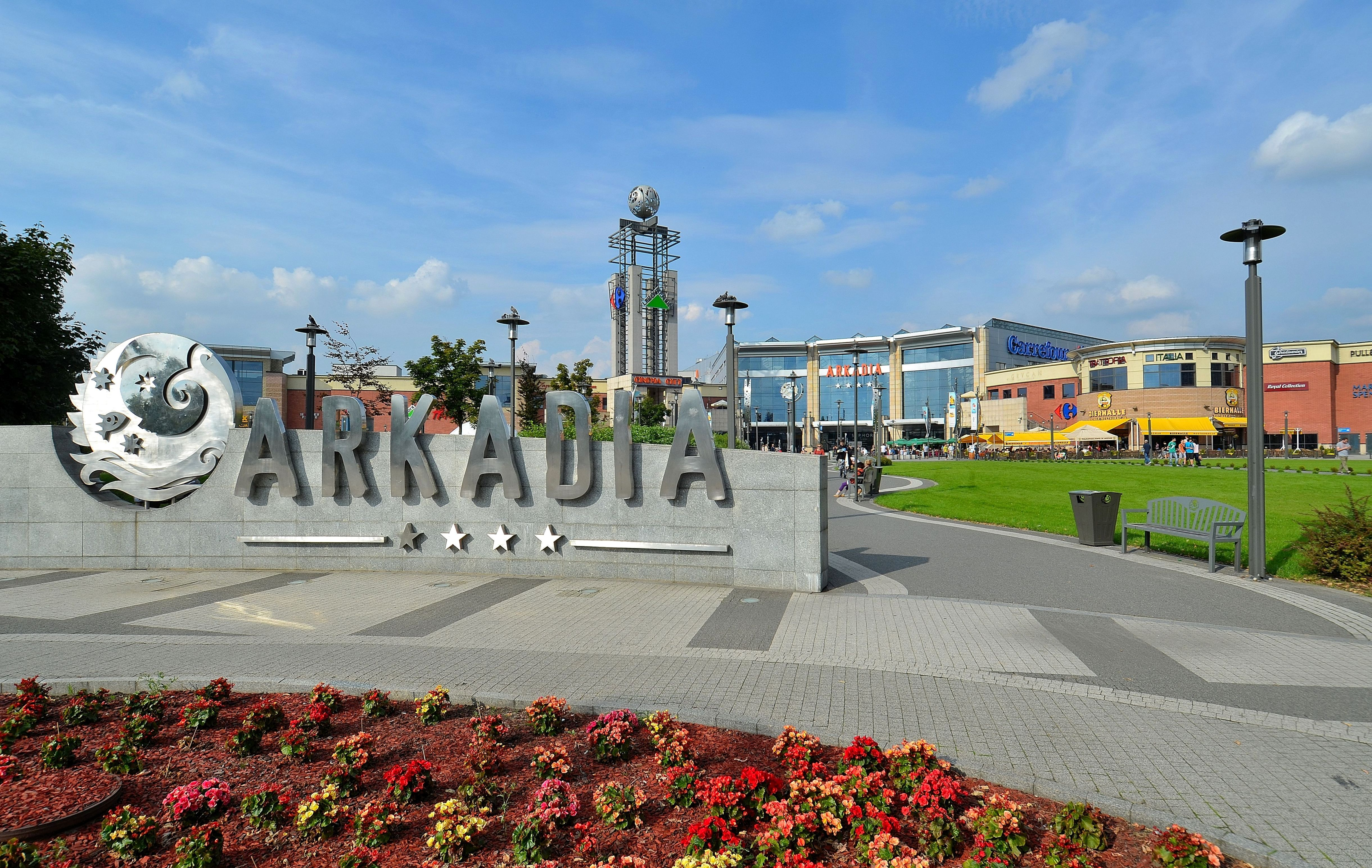 Arkadia shopping centre in Warsaw